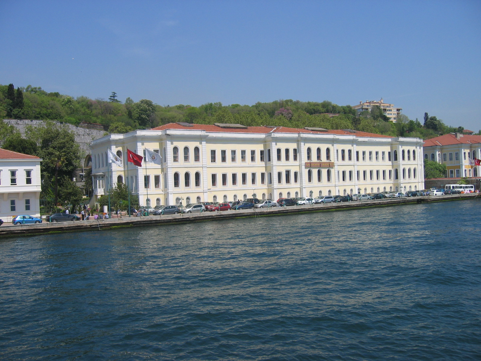 Galatasaray University